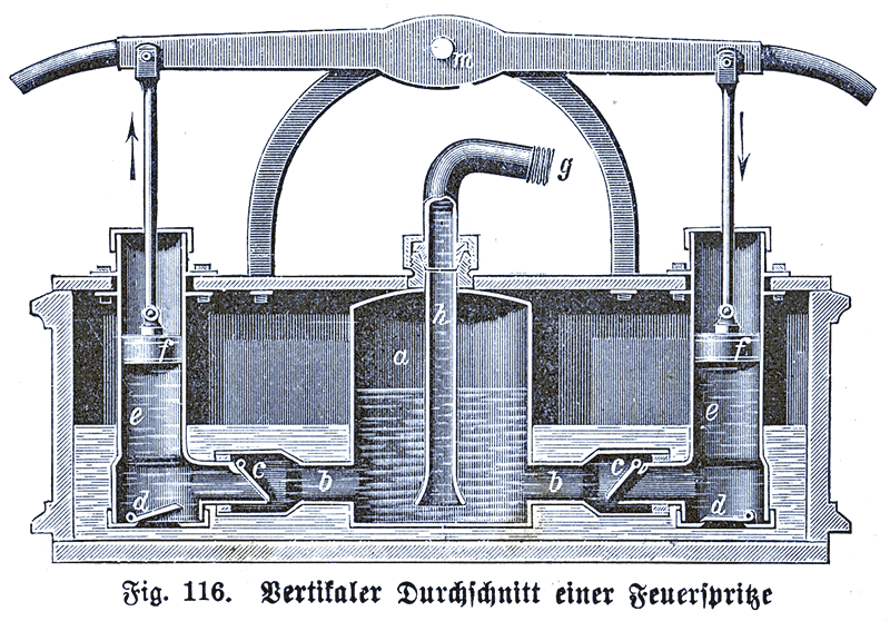 Cutaway drawing of an old fire engine.